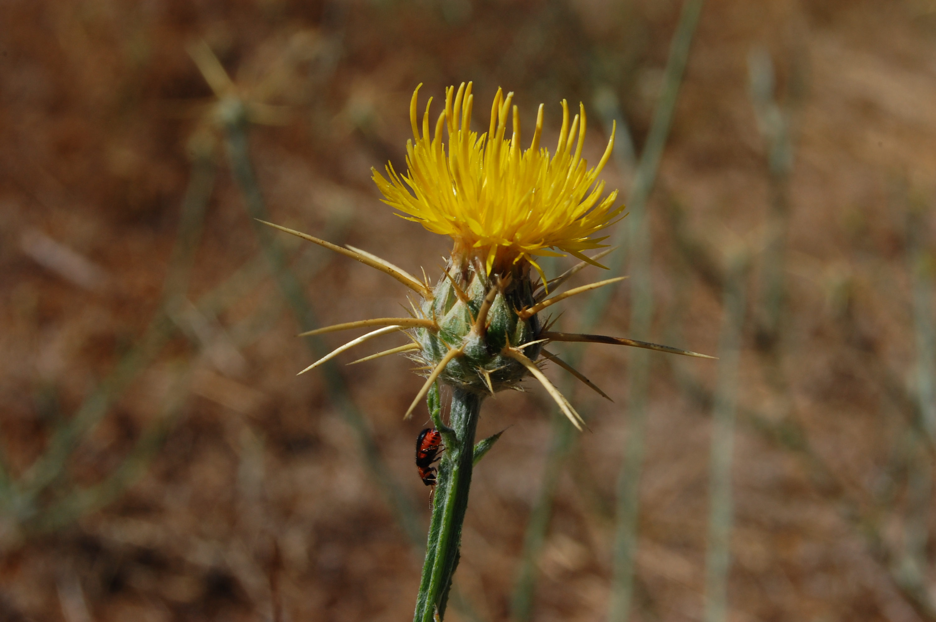 Yellow starthistle